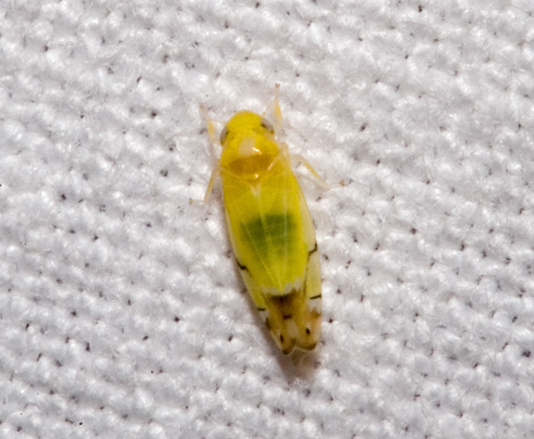 Please report references to kulacgmx.at.